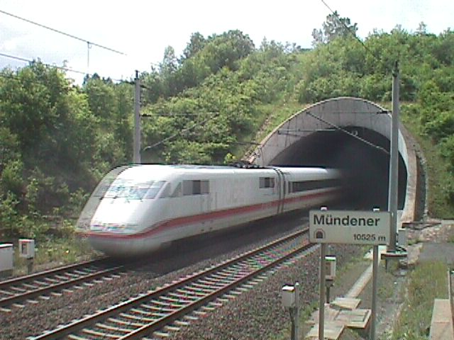 Northern portal of Münden Tunnel, Lower Saxony, Germany